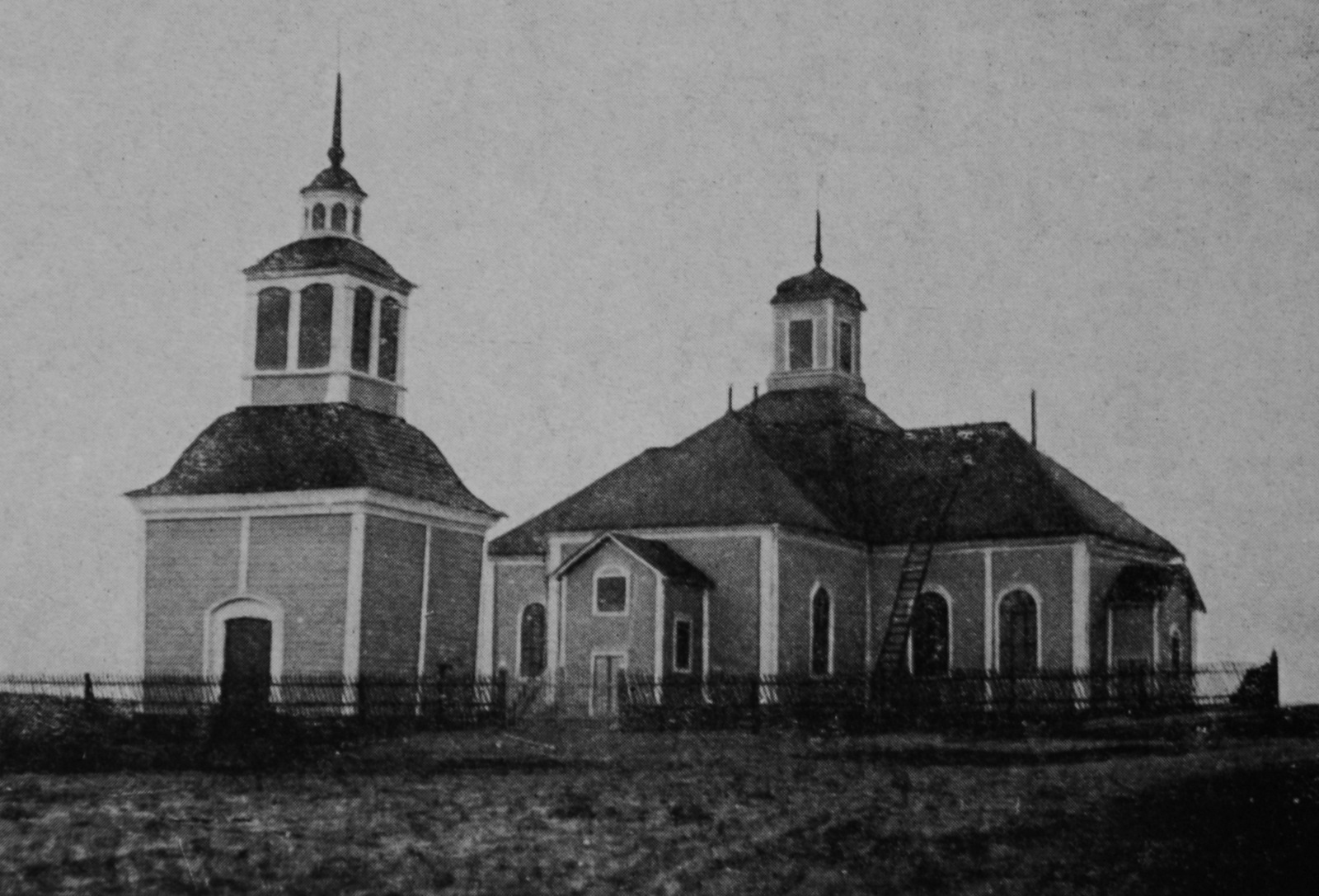 Alavieska church and bellfry. The church was built in 1795 by church builder Simon Silvén. It was destroyed in a fire in 1916.